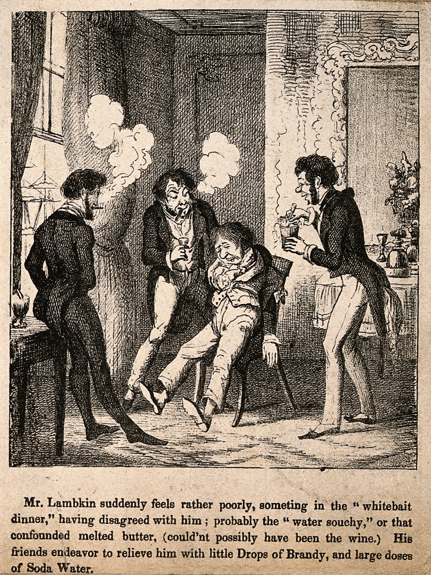 Mr. Lambkin suffering from excess food and wine, his friends try to make him feel better. Lithograph by G. Cruikshank. Iconographic Collections Keywords: Mr Lambkin; George Cruikshank